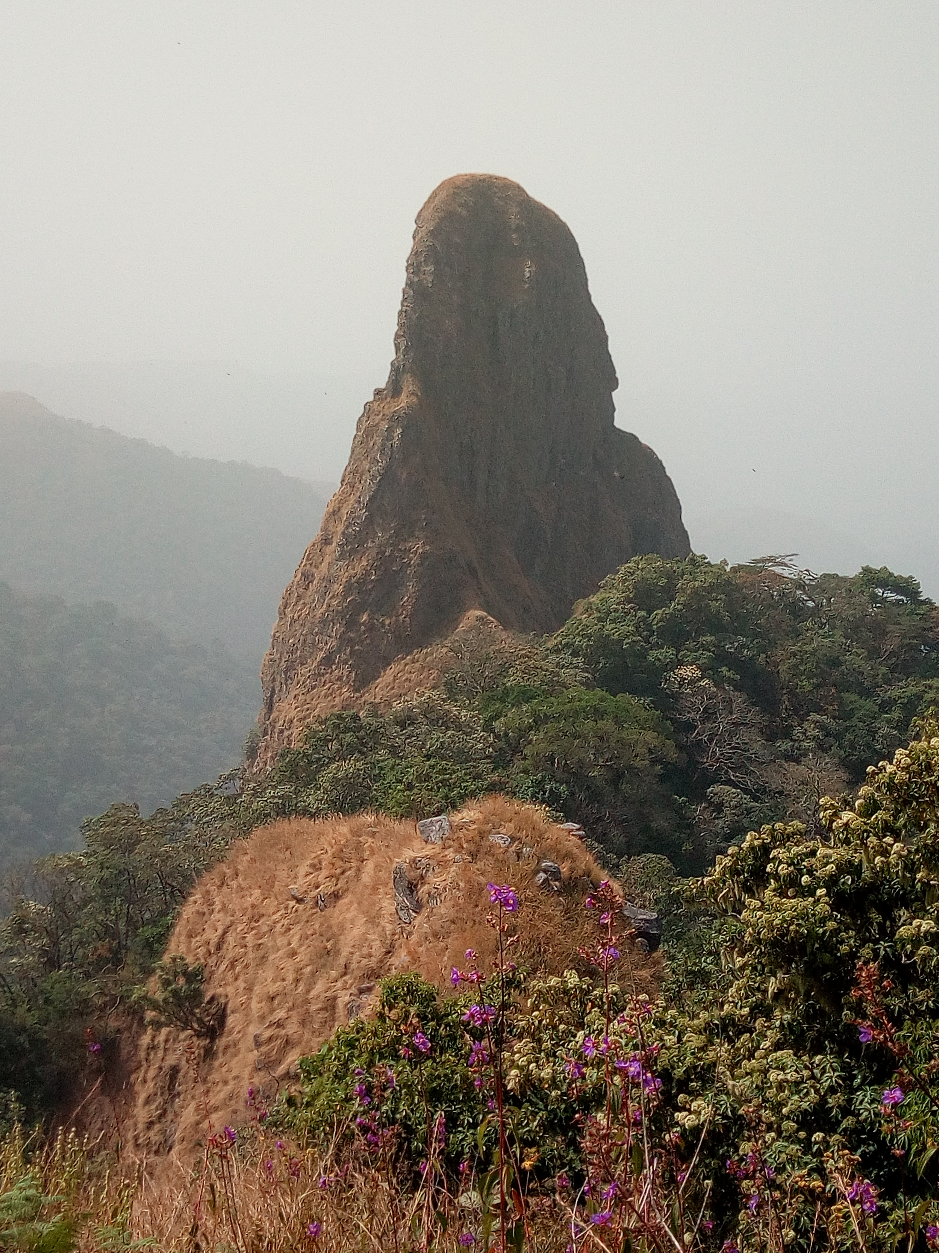 Chappal Waddi' is a mountain in Nigeria and, at 2,419 meters, is the country's highest point. It is located in Taraba State, near the border with Cameroon, in the Gashaka Gumti Forest Reserve and on the Mambilla